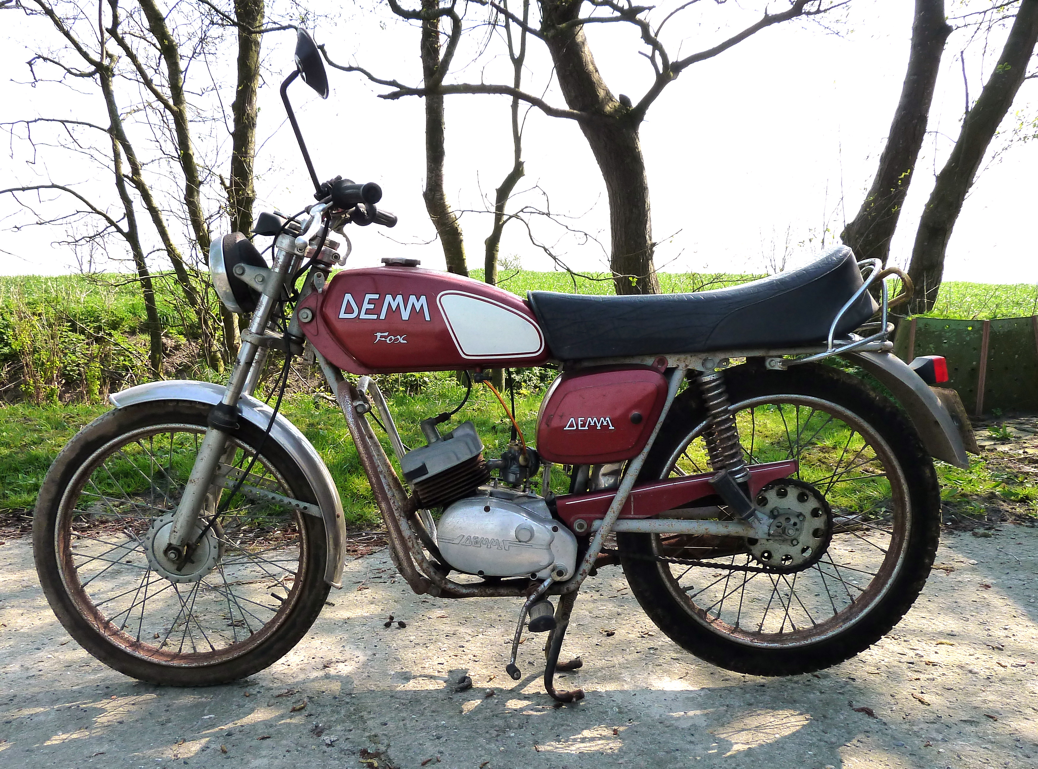 Small Italian motorbike (50ccm), bulit in 1980.